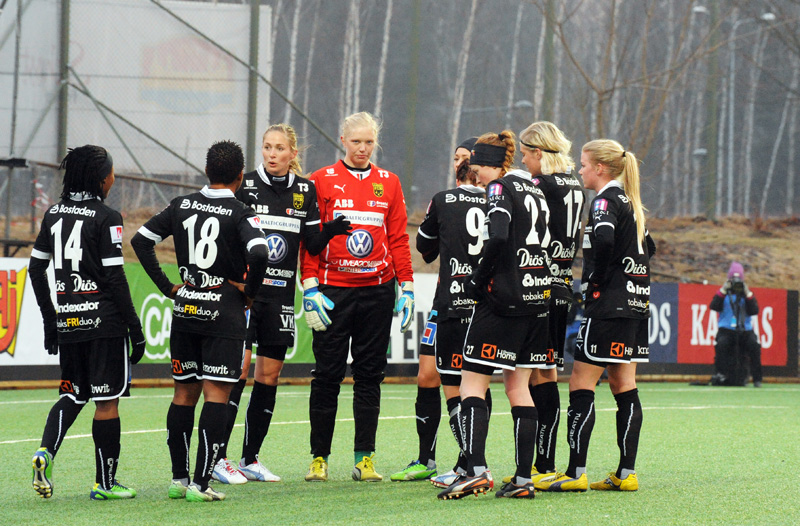 Malin Reuterwall (in red) surrounded by Umea team-mates